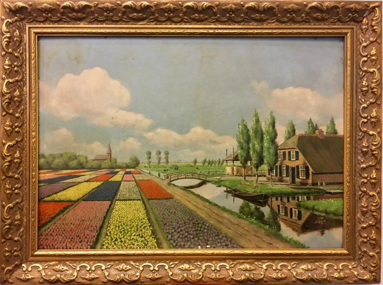 Dutch landscape by artist John (Johan) Dons, made in the night before he was executed by Germans near Kamp Amersfoort, 9 July 1942. Location in 2017: Kamp Amersfoort